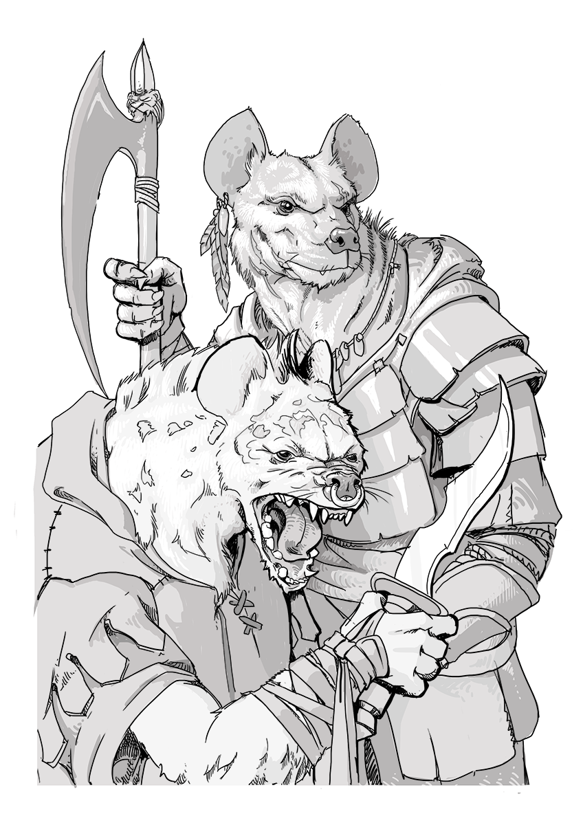 In the Dungeons & Dragons fantasy role-playing game, gnolls greatly resemble humanoid hyenas.